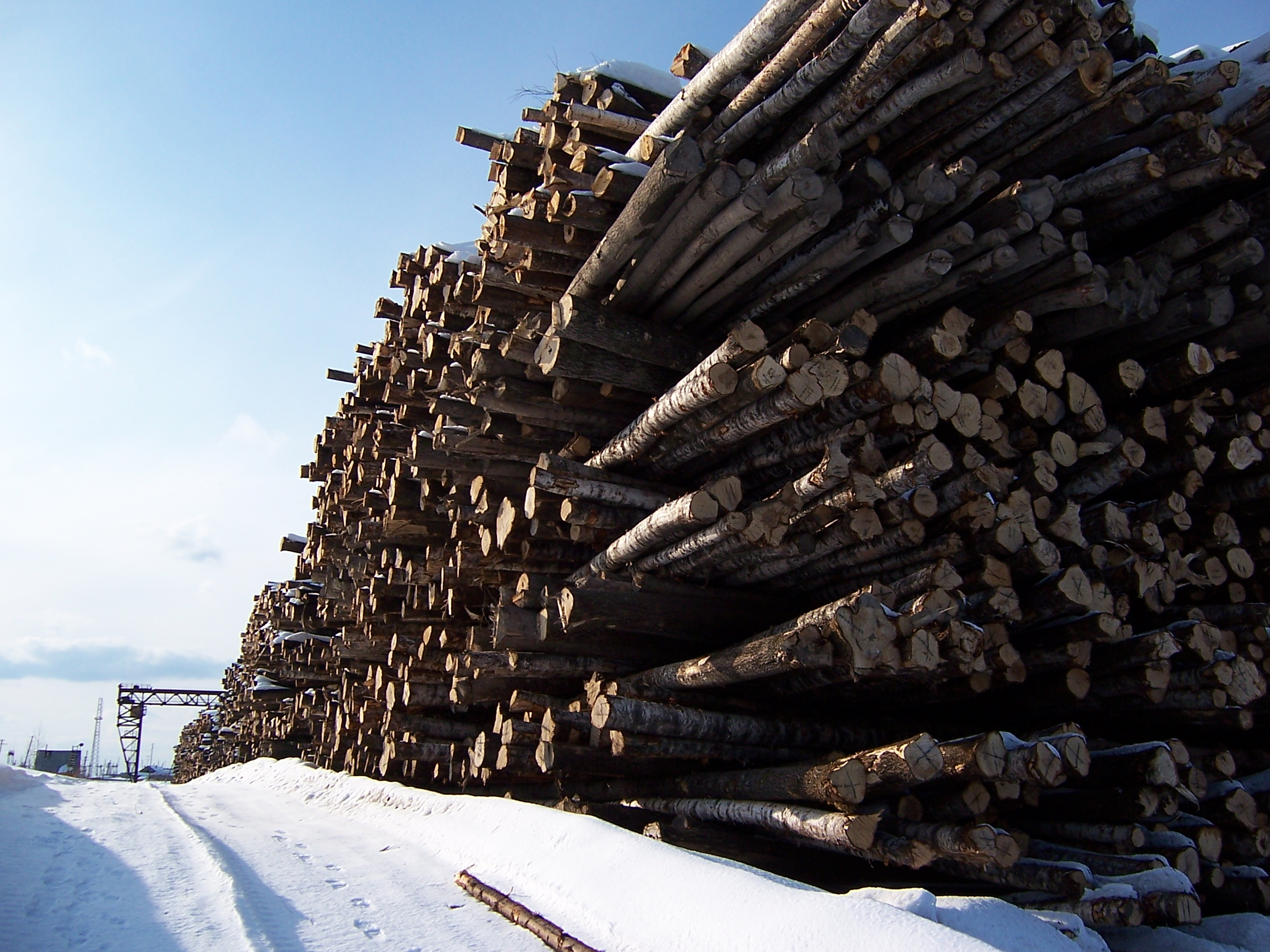 Tree-lengths in storage of russian logging company, Kirov region, RussiaEs el , 2008.